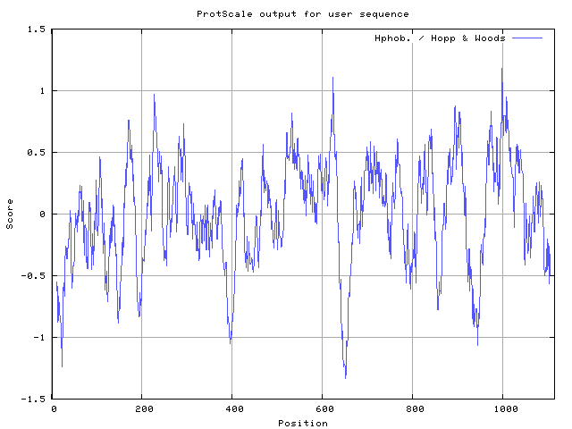 Hopp-Woods-Hydropathy Plot for Human RET proto-oncogene (Uniprot ID: P07949). Plot was created using the ExPASy Protscale tool ( The "Hphob. / Hopp & Woods" option was selected